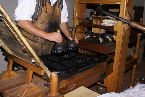 Inking the types at the Colonial Williamsburg printer.